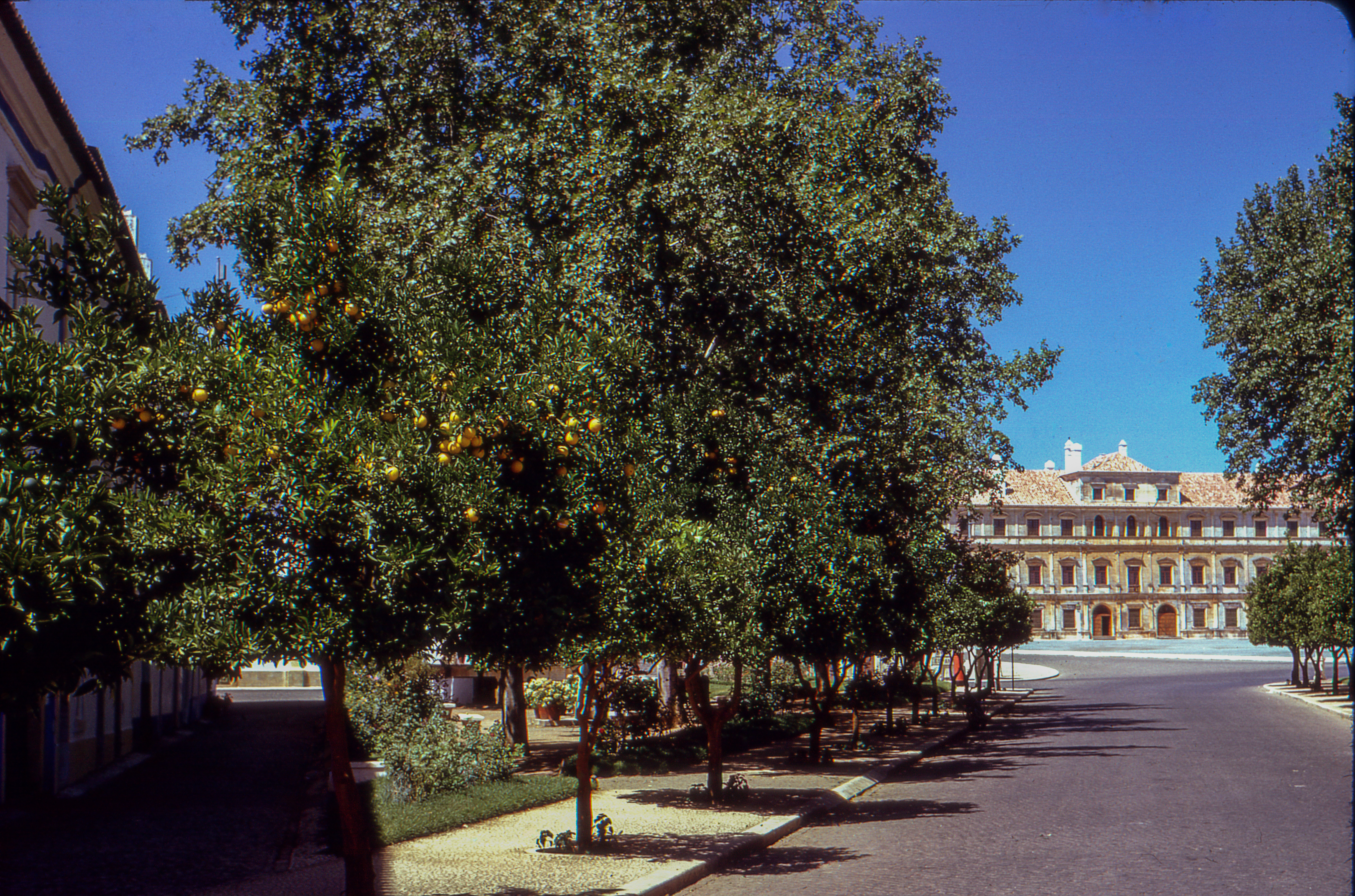 Place of the Palace of the Dukes of Braganza.